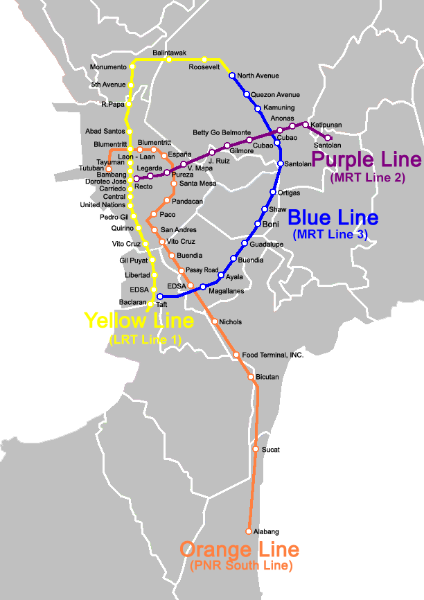 The 2011 Metro Manila railroad map.